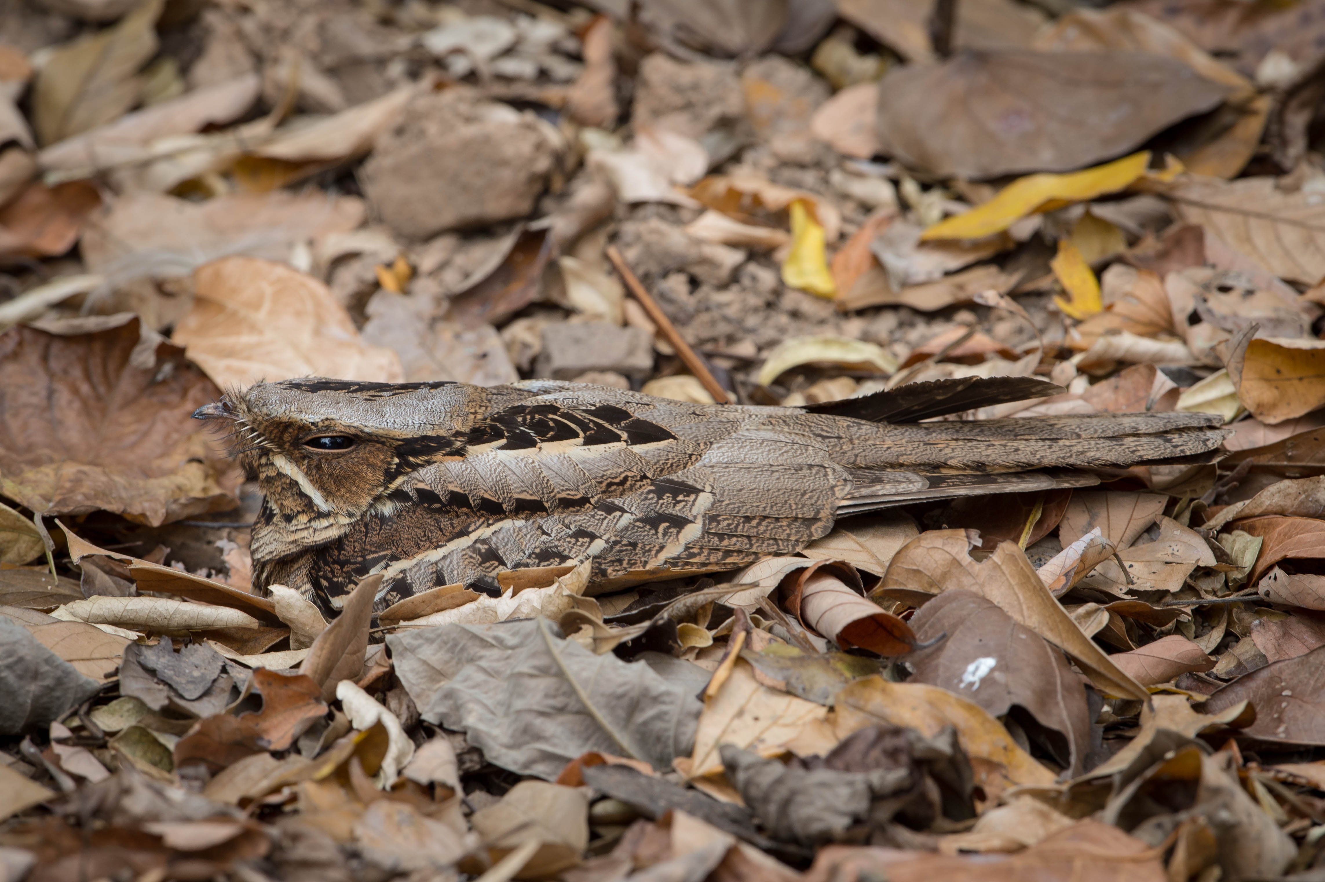 Grey Nightjar, Kaeng Krachan NP, Thailand